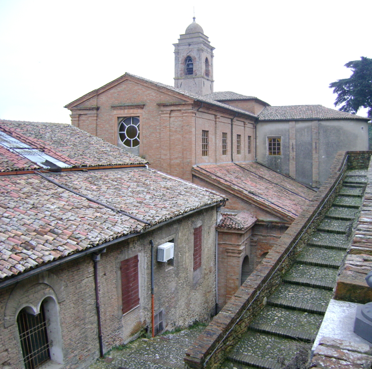 The cathedral of Santa Caterina, Bertinoro, province of Forlì-Cesena, Emilia-Romagna